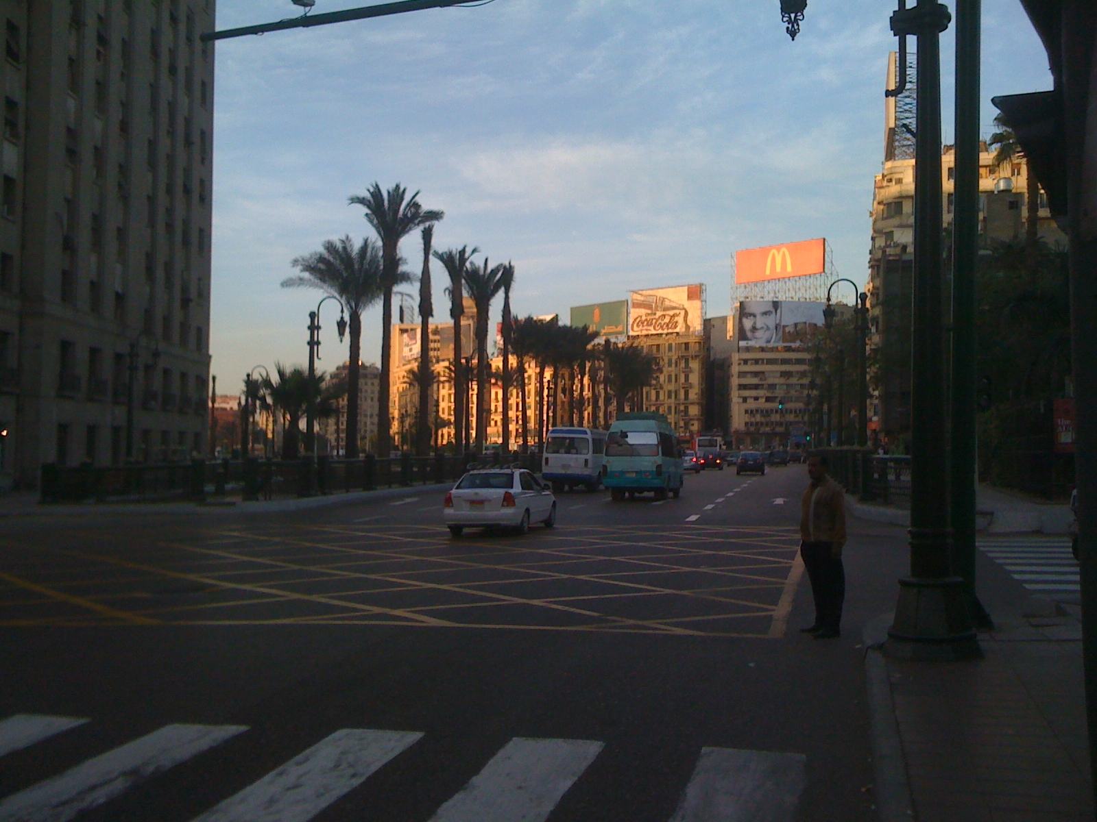 View of end of Qasr Al-Ayn Street, looking towards Tahrir Square.